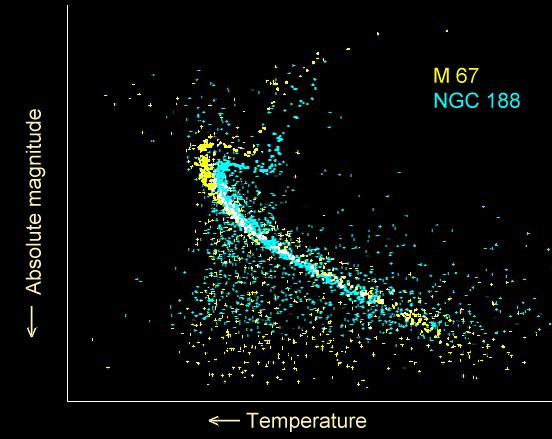 HR diagrams for two open clusters, showing the main sequence turn-off at different ages.